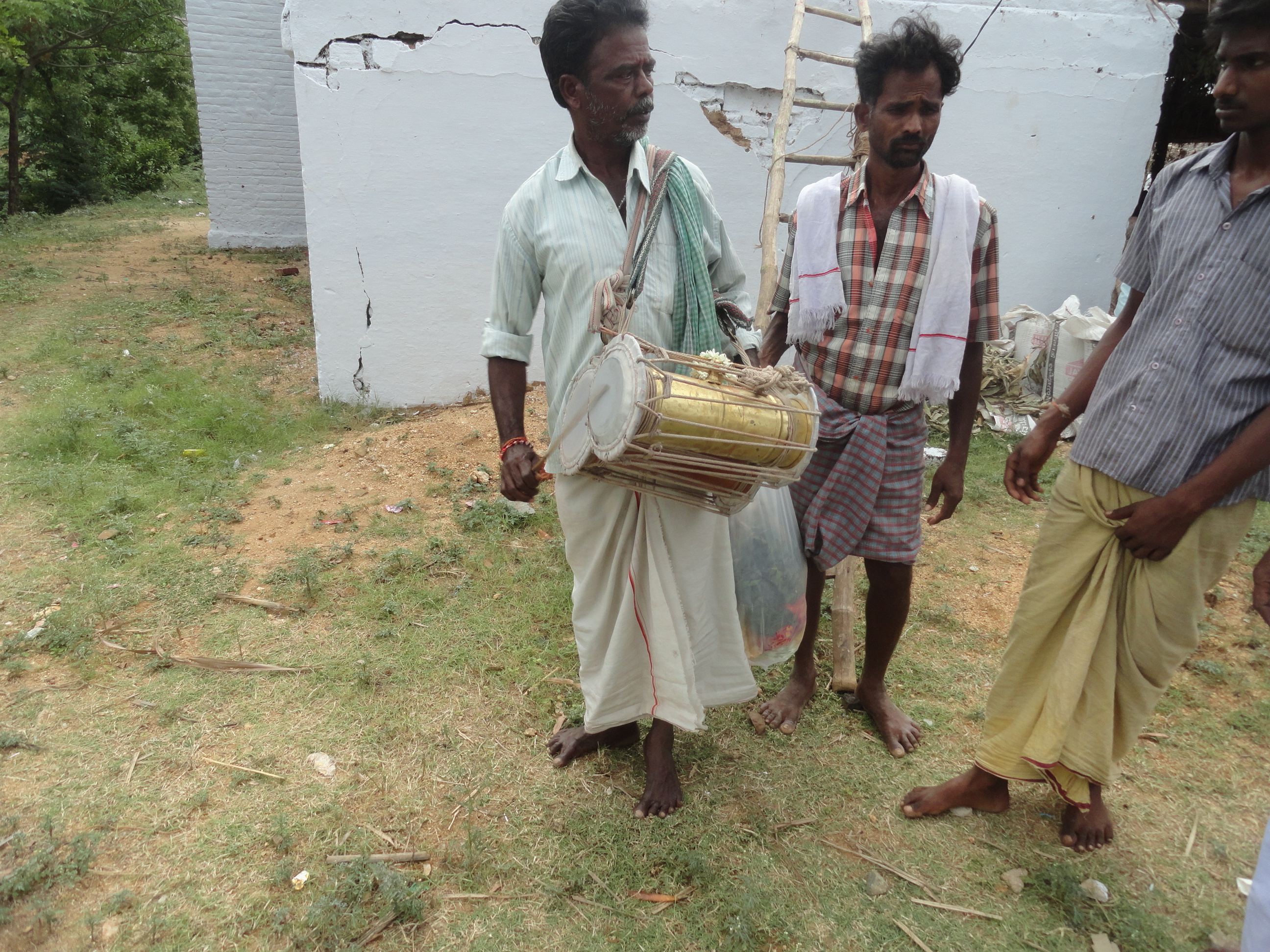 పొమ్మలు వాయించడం. మొగరాలలో